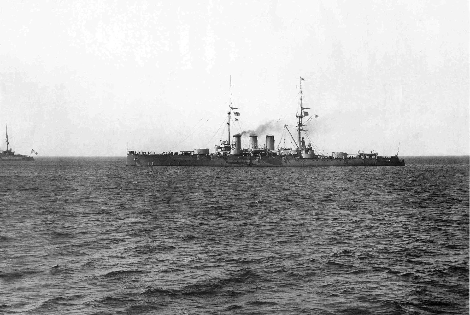 Russian armoured cruiser Ryurik.